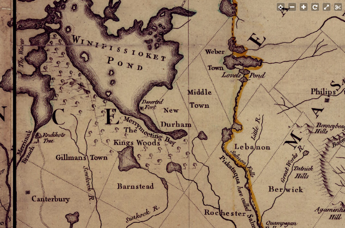 A map of the most inhabited part of New England; containing the provinces of Massachusets Bay and New Hampshire, with the colonies of Konektikut and Rhode Island, divided into counties and townships: The whole composed from actual surveys and its situation adjusted by astronomical observations.